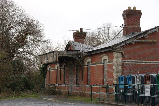 Dunleer station Dunleer station is an example of GNR(I) station architecture. It opened in 1851 and closed in 1976. It reopened in 1979 only to close again in 1984. Irish Rail has declined to reopen it once more despite further housing development in the town and nearby Ardee. There are no stations open in the 23 miles between Drogheda and Dundalk.